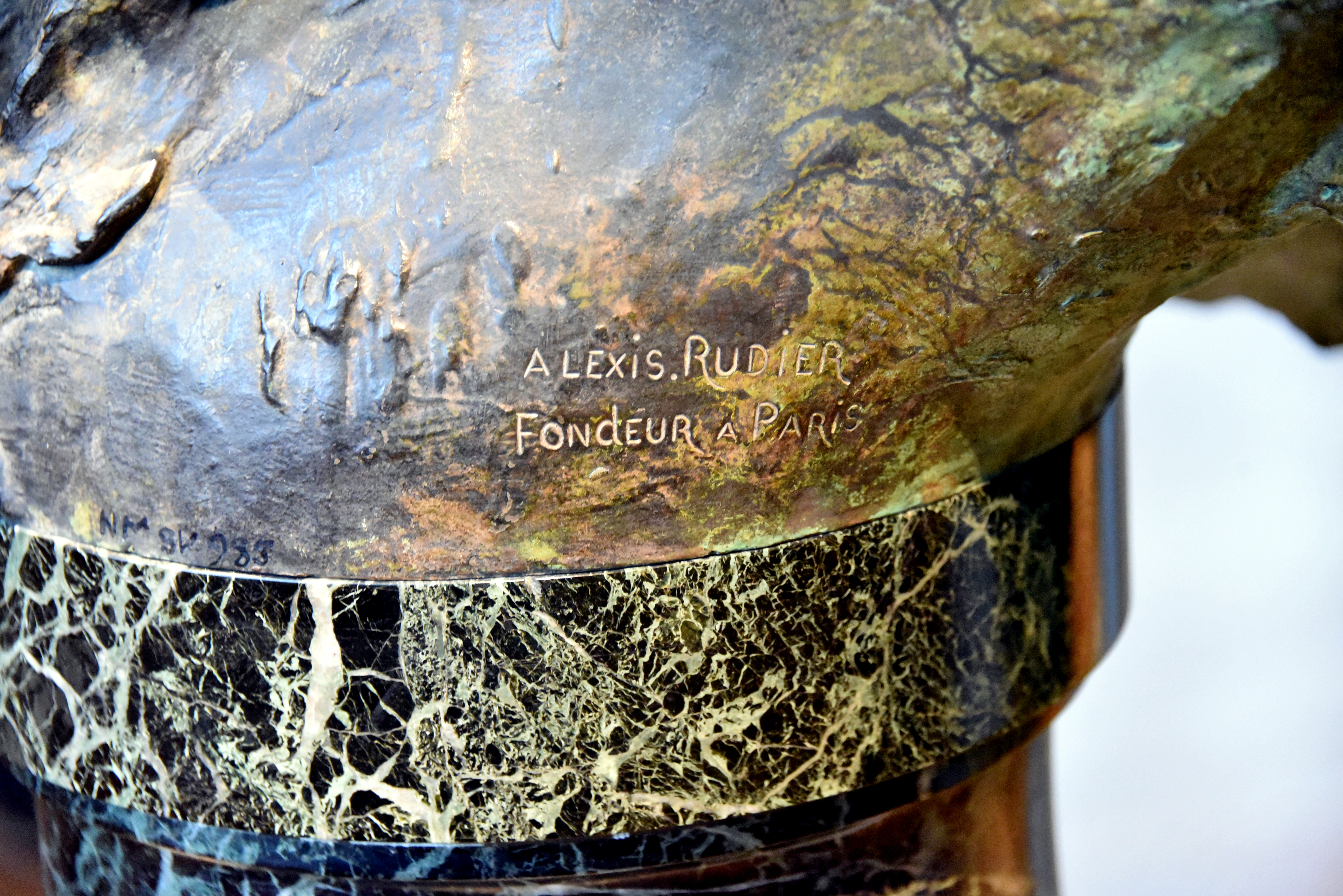 "Alexis Rudier Fondeur À Paris" (Alexis Rudier Founder In Paris). Written on the bronze bust of Bellona by Auguste Rodin, 1879. Nationalmuseum, Stockholm, Sweden. The Museum's inventory no. NMSk 283 appears (this is probably an older no.; the bust's no. is NMSk 985).